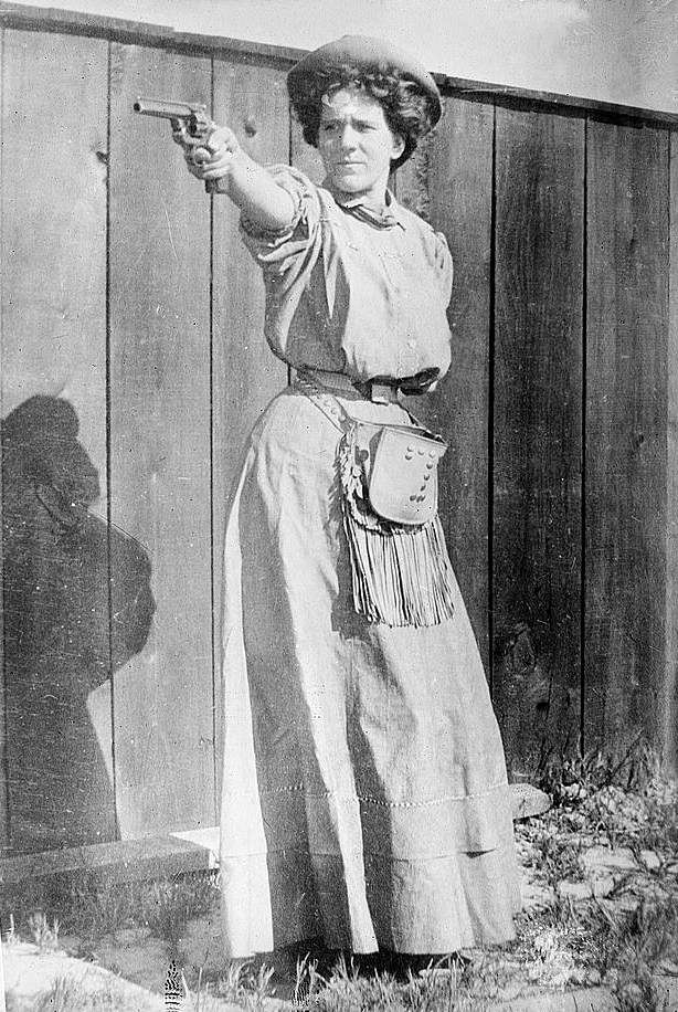 "Mrs. Adolph Topperwein" An undated image, from the Bain News Service, of exhibition shooter Elizabeth Topperwein.